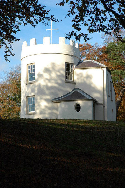 The Round House at the Kymin, Monmouth